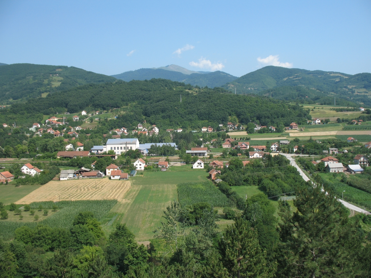 View on Brvenik on Ibar,Raška municipality,Serbia.